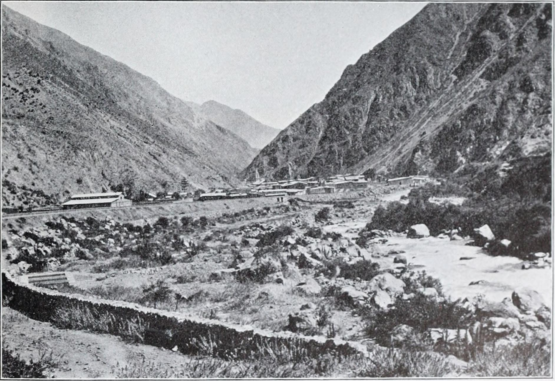 Title: Report of first expedition to South America, 1913. Members of the expedition: Richard P. Strong (and others) Year: 1915 (1910s) Authors: Harvard Medical School. Dept. of Tropical Medicine Strong, Richard Pearson, 1872- Subjects: Medical geography -- South America Tropics -- Diseases and hygiene Publisher: Cambridge Harvard University Press Text Appearing Before Image: Fig. 1. — Regions in the Andes Mountains in which Oroya Fever, VerrugaPeruviana, and Malaria are prevalent. Text Appearing After Image: Fig. 2. — View down the Rio Rimac from above Matucana, showing the town. Plate XVII. —Peru.